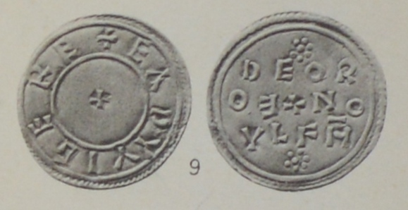 Coin of King Eadwig of England